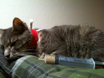 Image of a cat being treated for Feline Hepatic Lipidosis. An esophageal feeding tube can be seen extending from a bandaged neck in addition to a syringe containing a nutrient slurry.